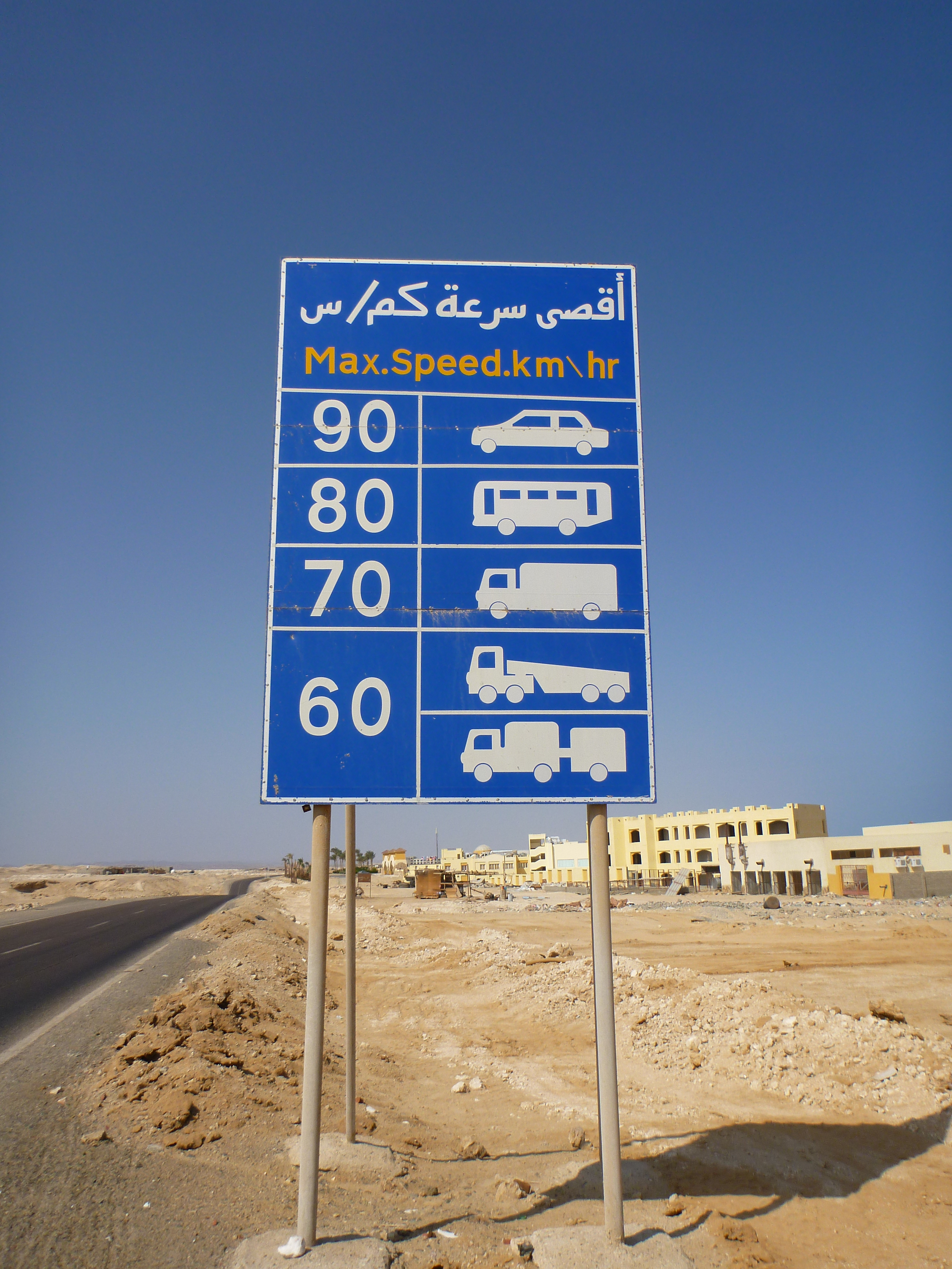 Maximum speed sign for different car types on a street close to the Red Sea coast in Egypt